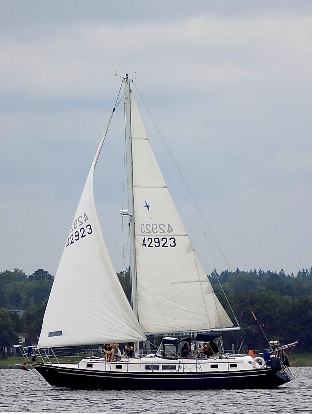 A Gulfstar 43 Mark II sailboat named Wendy.